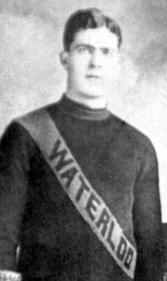 Canadian ice hockey player Hal McNamara of the Waterloo Colts.